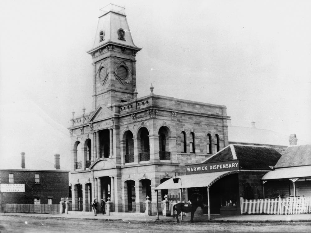 Warwick Town Hall and adjacent shops, ca. 1890 In this photograph the clock has yet to be installed. The ceremony of laying the foundation stone of this building, the third Warwick Town Hall, was attended by the Premier of Queensland, Sir Samuel Griffith and Lady Griffith. The ceremony took place on 12 August 1887. The first Town Hall was a slab building which had originally been built as the Court House at the corner of Albert and Albion Streets in 1849. In 1873 the Council purchased the Masonic Hall, a brick building in Palmerin Street, as the second Town Hall. This site was later occupied by the Warwick Argus newspaper office and from 1919 by the Warwick Daily News. On one side of the Town Hall is the chemist shop of C.H. Ward.